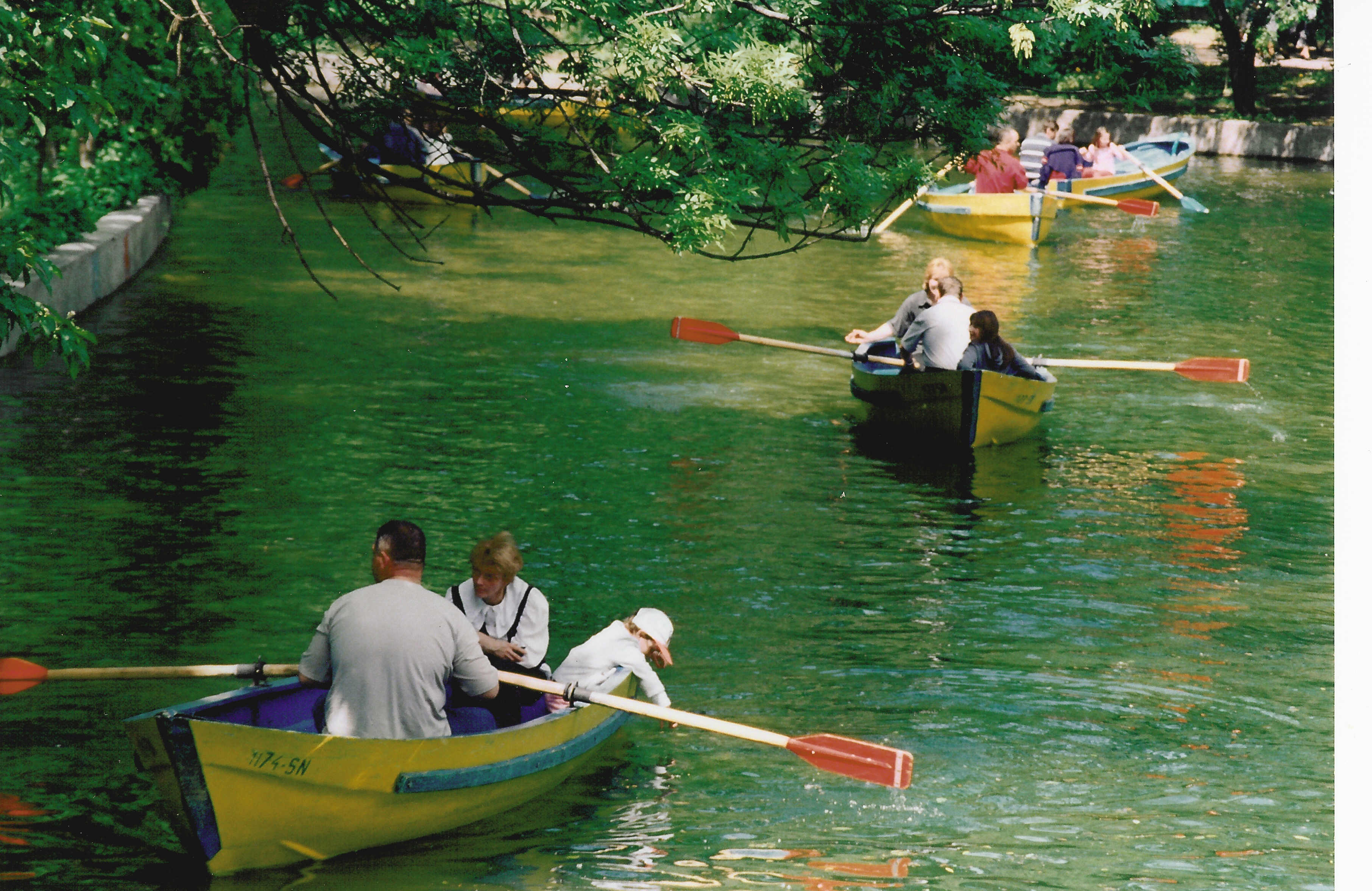 Rowboats on the lake, Grădina Cişmigiu (Cişmigiu Garden), Bucharest, Romania